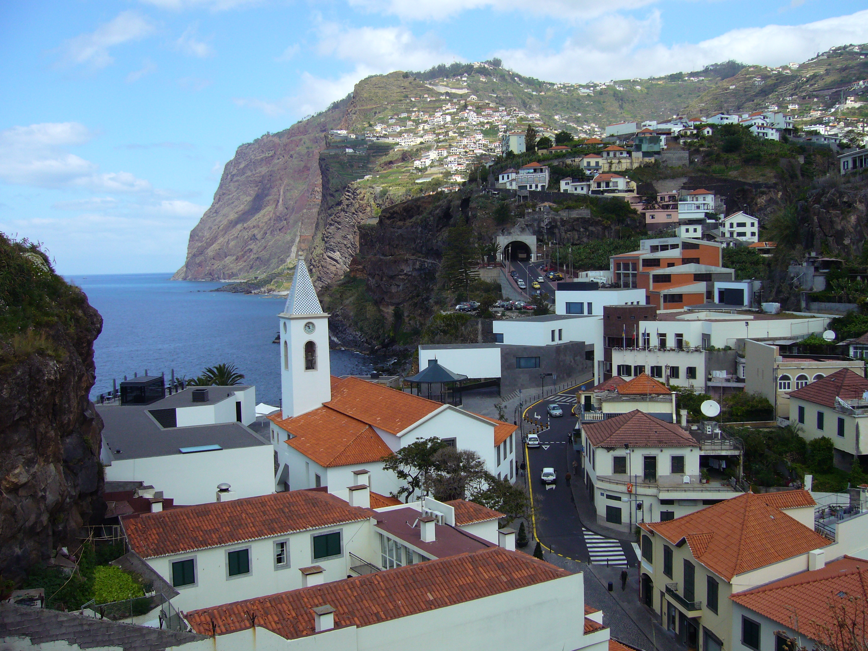 Câmara de Lobos, on the background cliff Gabo Girão westward from town.